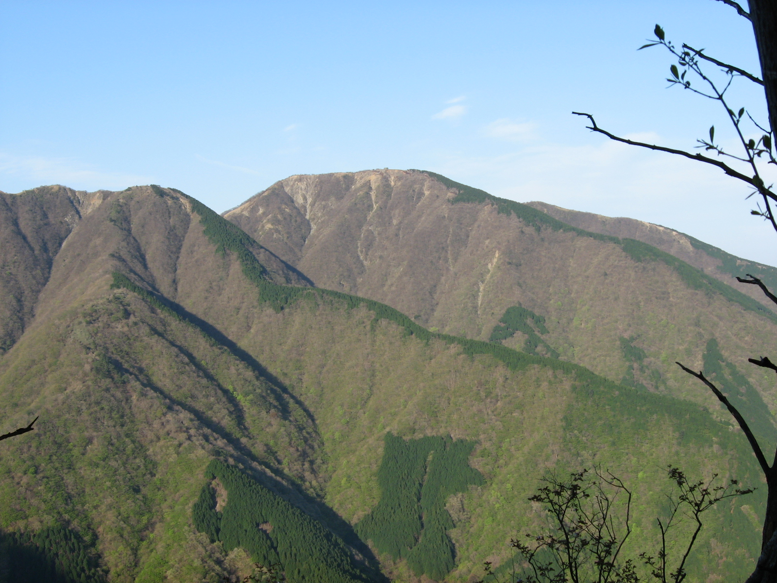 Mt.Sannotō (三ノ塔 San-no-tō) as seen from Ōkura ridge (大倉尾根 Ōkura-one), Kanagawa pref, Honshū, Japan.